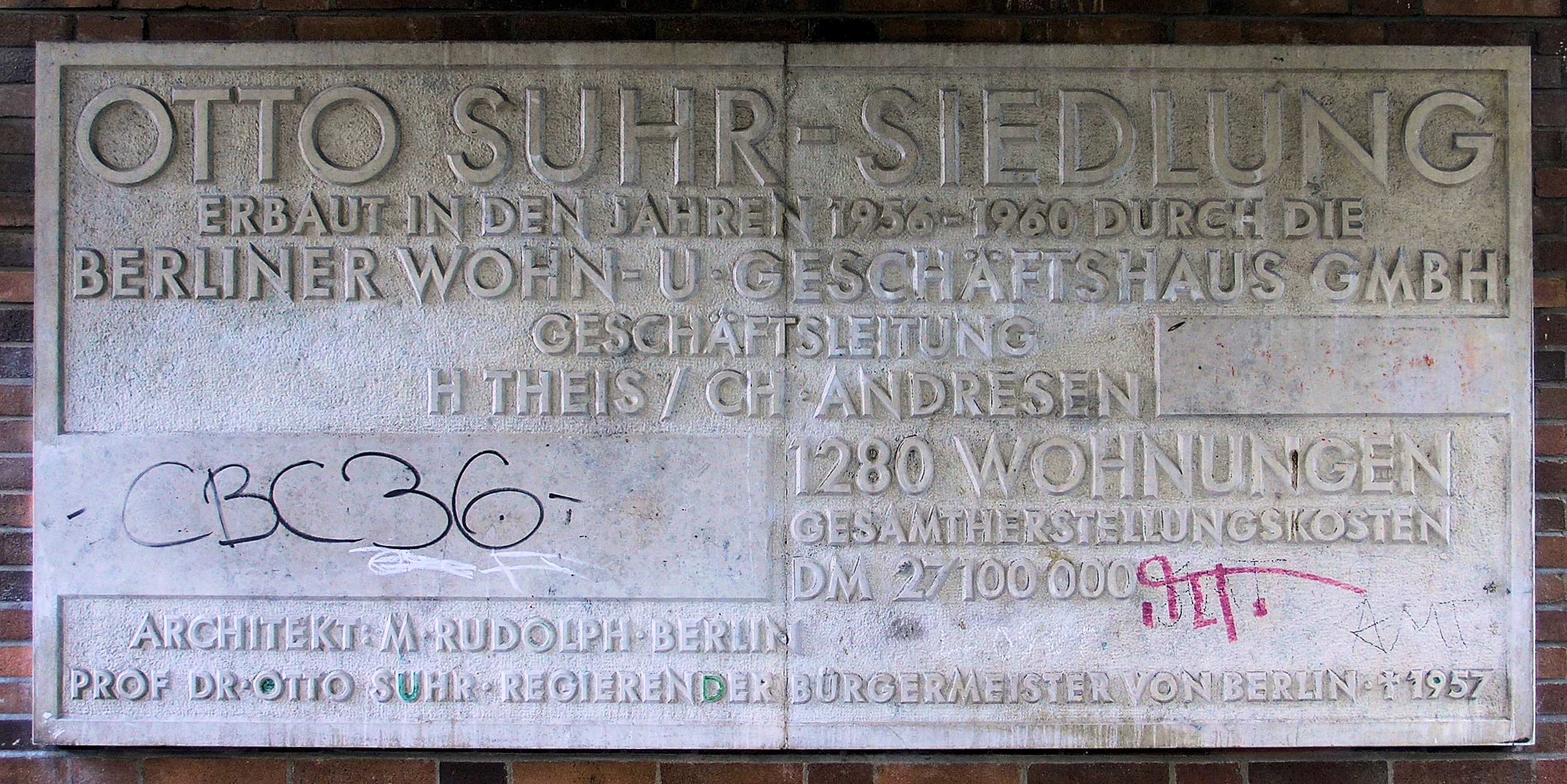 Memorial plaque, Otto Suhr Siedlung, Alexandrinenstraße 42, Berlin-Kreuzberg, Germany Koordinate:52°30′19″N 13°24′25″E / 52.50528°N 13.40694°E